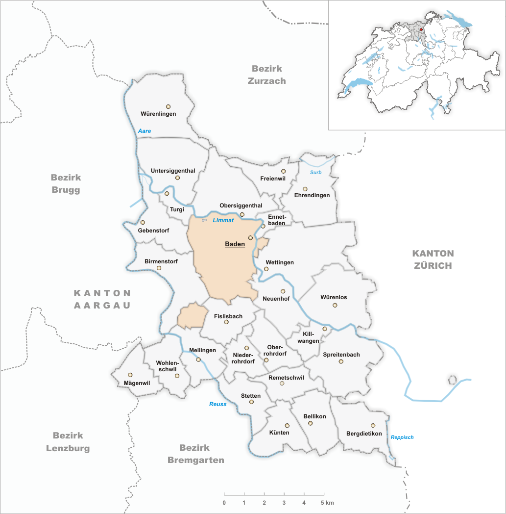 Municipality Baden